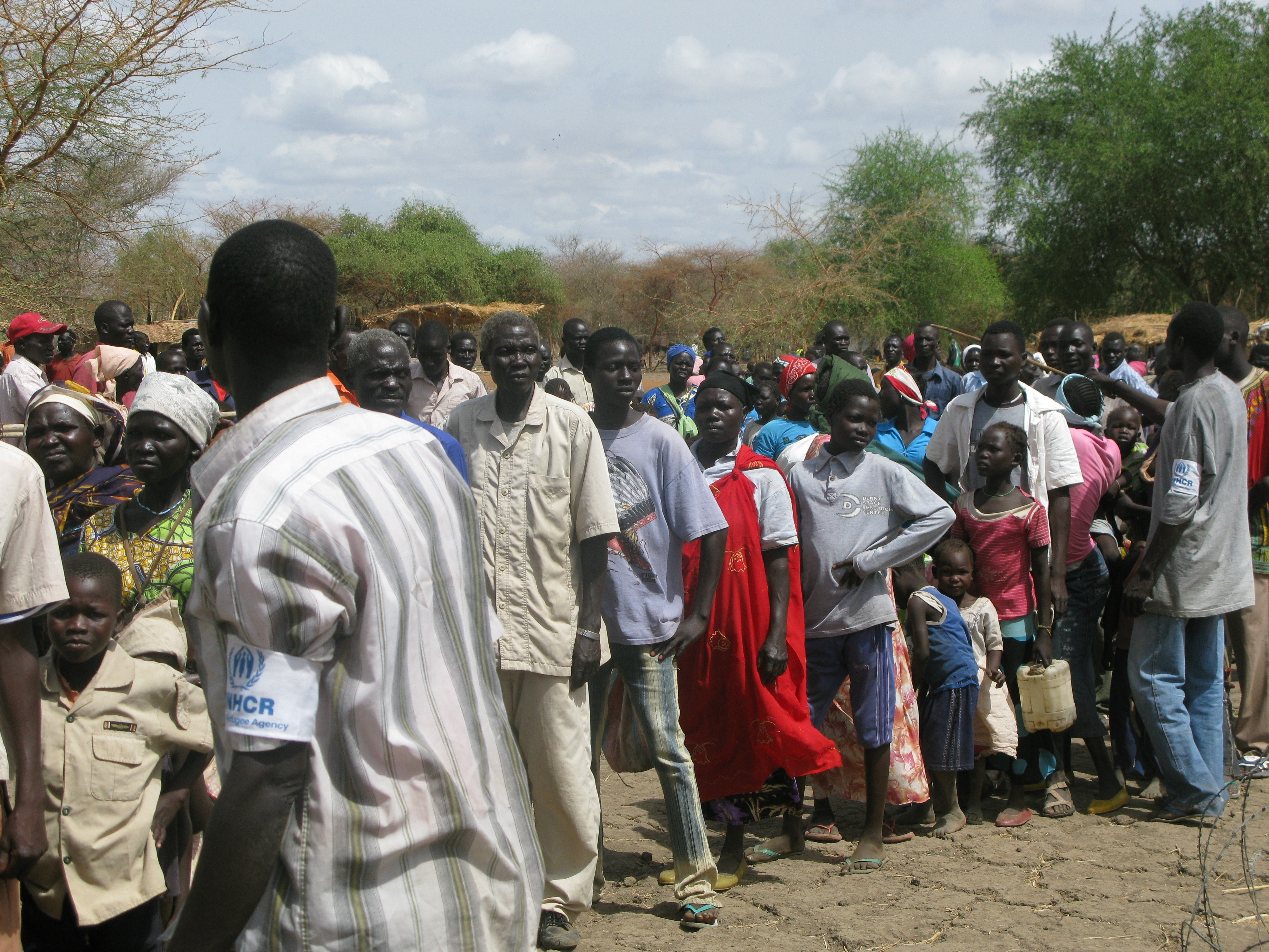 UNHCR staff assist refugees arriving at the Doro camp in South Sudan, close to the border with neighbouring Sudan. Nearly 50,000 refugees have arrived here in recent months. To find out how the UK is helping in the region, please visit: Image: Robert Stansfield/Department for International Development Terms of use This image is posted under a Creative Commons - Attribution Licence, in accordance with the Open Government Licence. You are free to embed, download or otherwise re-use it, as long as you credit the source as 'Robert Stansfield/Department for International Development'.